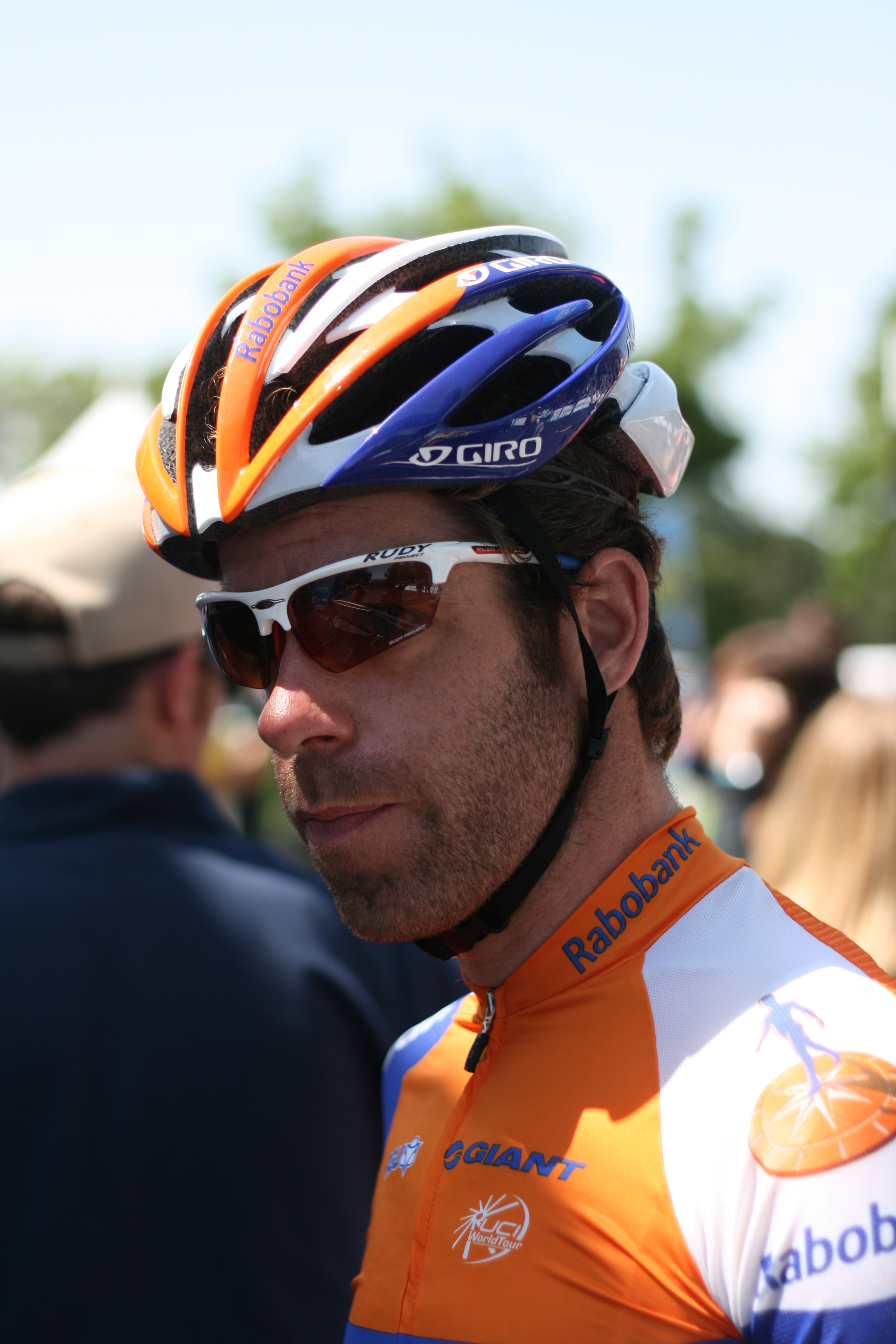 2012 Amgen Tour of California Stage 3 start, Berryessa Road, San Jose, CA